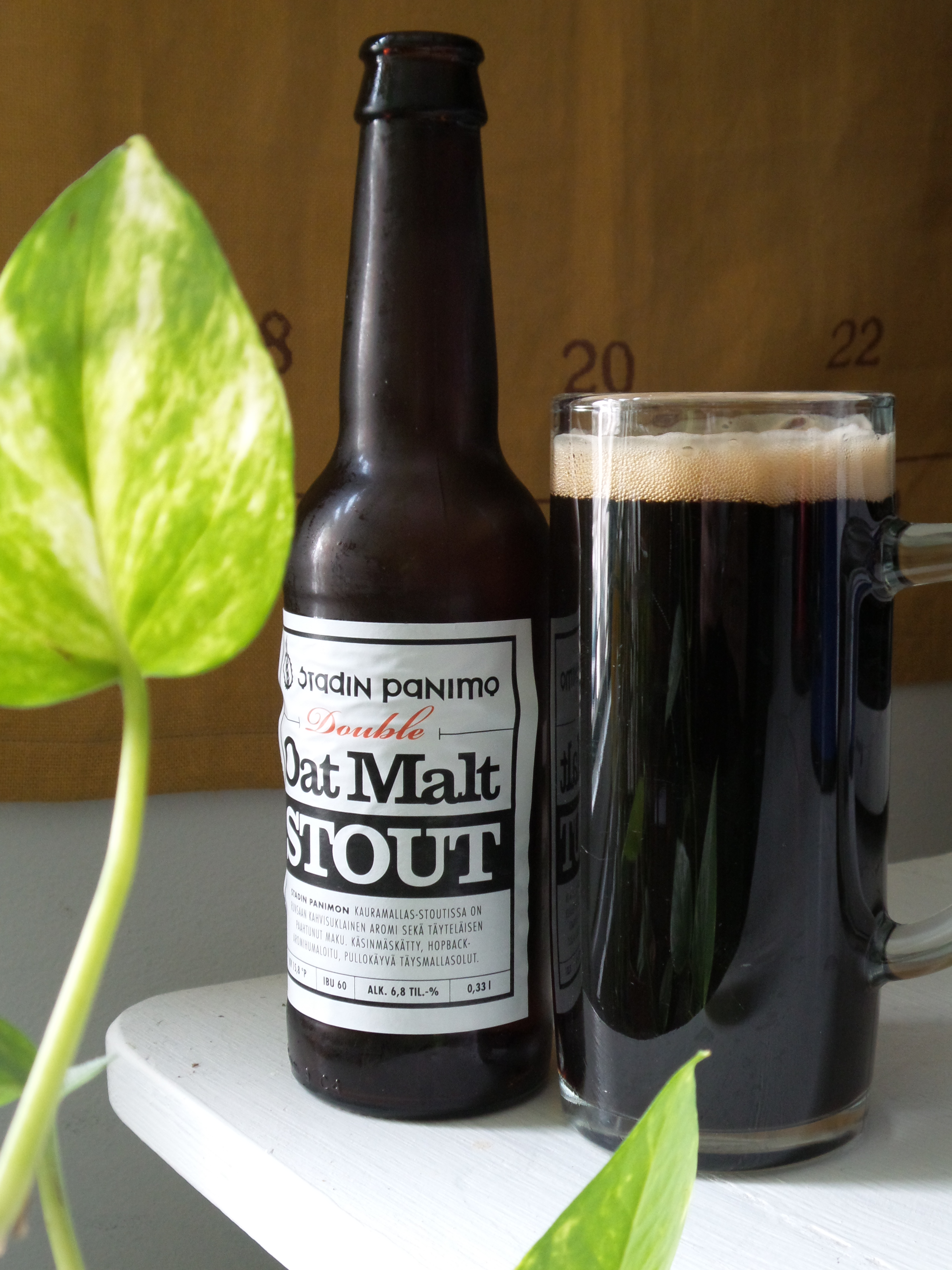 Stout by Finnish brewery Stadin Panimo